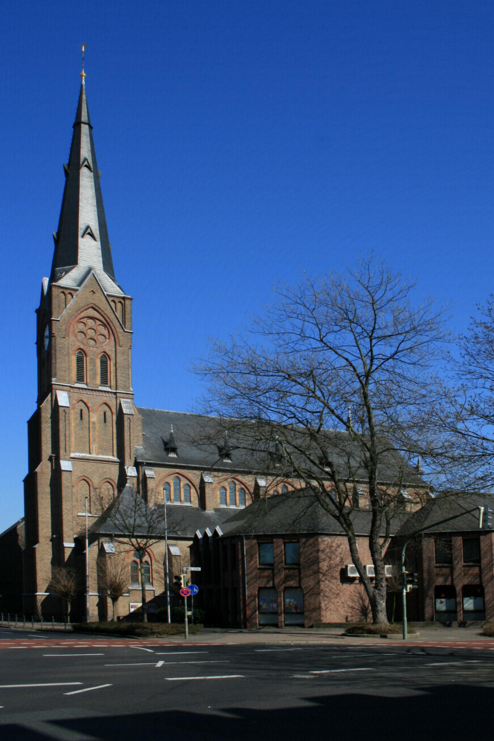 This is a photograph of an architectural monument.